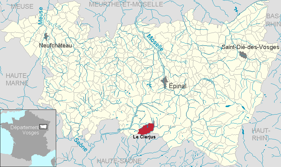 Le Clerjus in the department of Vosges, Lorraine, France